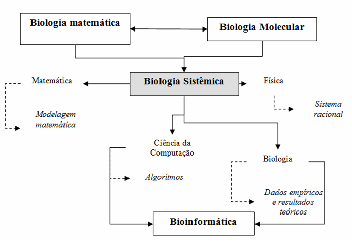 Cornerstones of systems biology